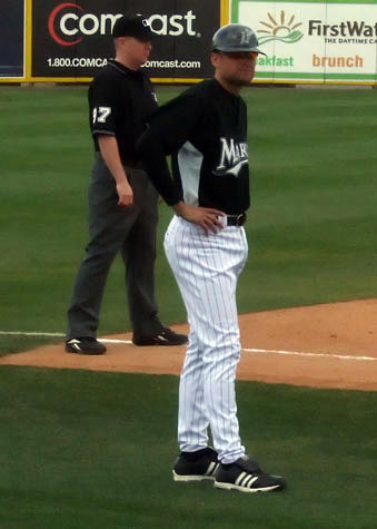 Coaching Third Base at a spring training game vs the Baltimore Orioles on 2/29/08. I took this picture. 01:10, 1 March 2008 . . Rabbethan . . 339×475 (50 KB)